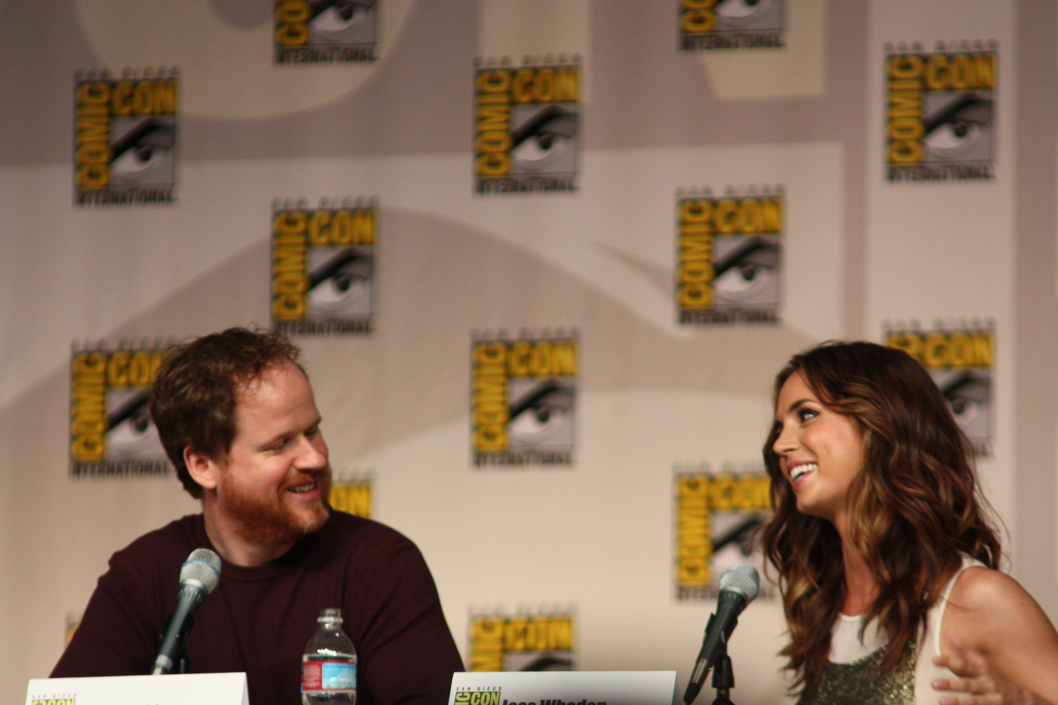 Dollhouse creator Joss Whedon and actress Eliza Dushku.